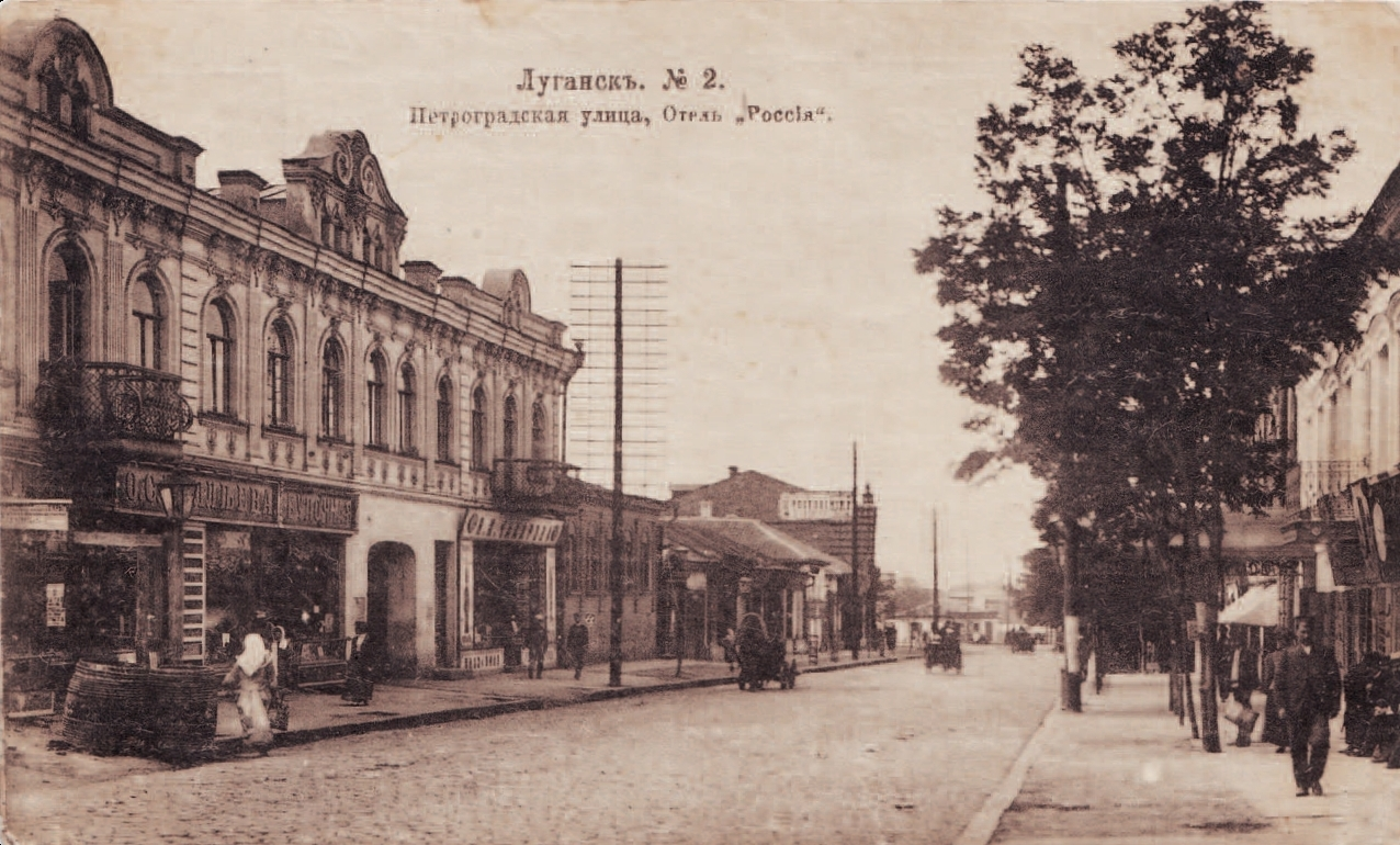 Pertogradskaya Street. Hotel «Russia». Lugansk. 1914.